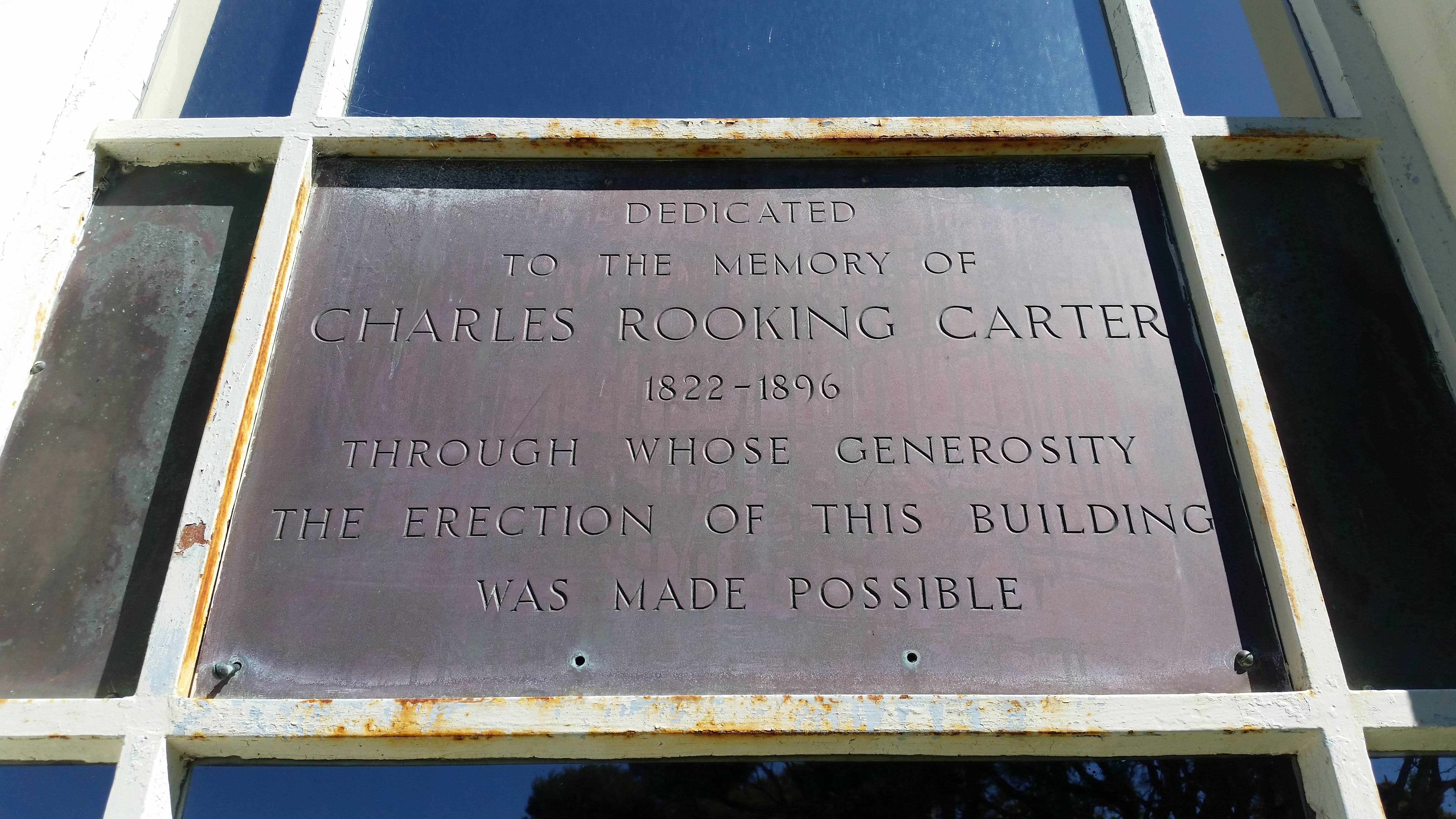 Historic plaque located on the window outside the Thomas Cooke telescope room. "Dedicated to the memory of Charles Rooking Carter (1822 -1896) through whose generosity the erection of this building was made possible"